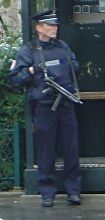 French National Police forces in front of the Grand Palais in Paris, France